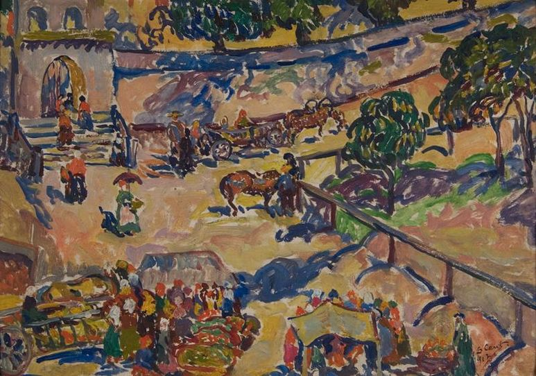 Landscape